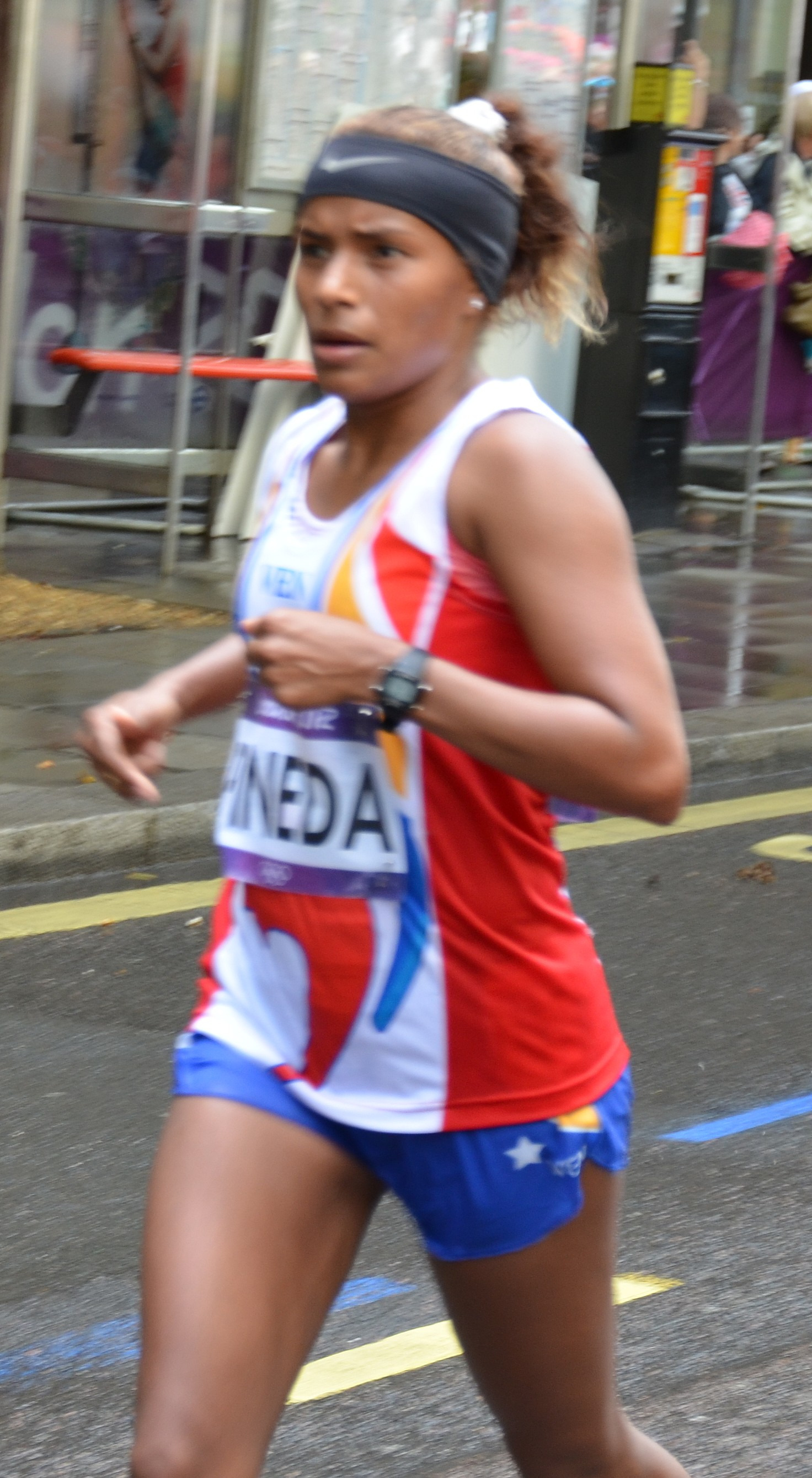 Yolimar Pineda (Venezuela) in the marathon (w) at the Olympic Games 2012